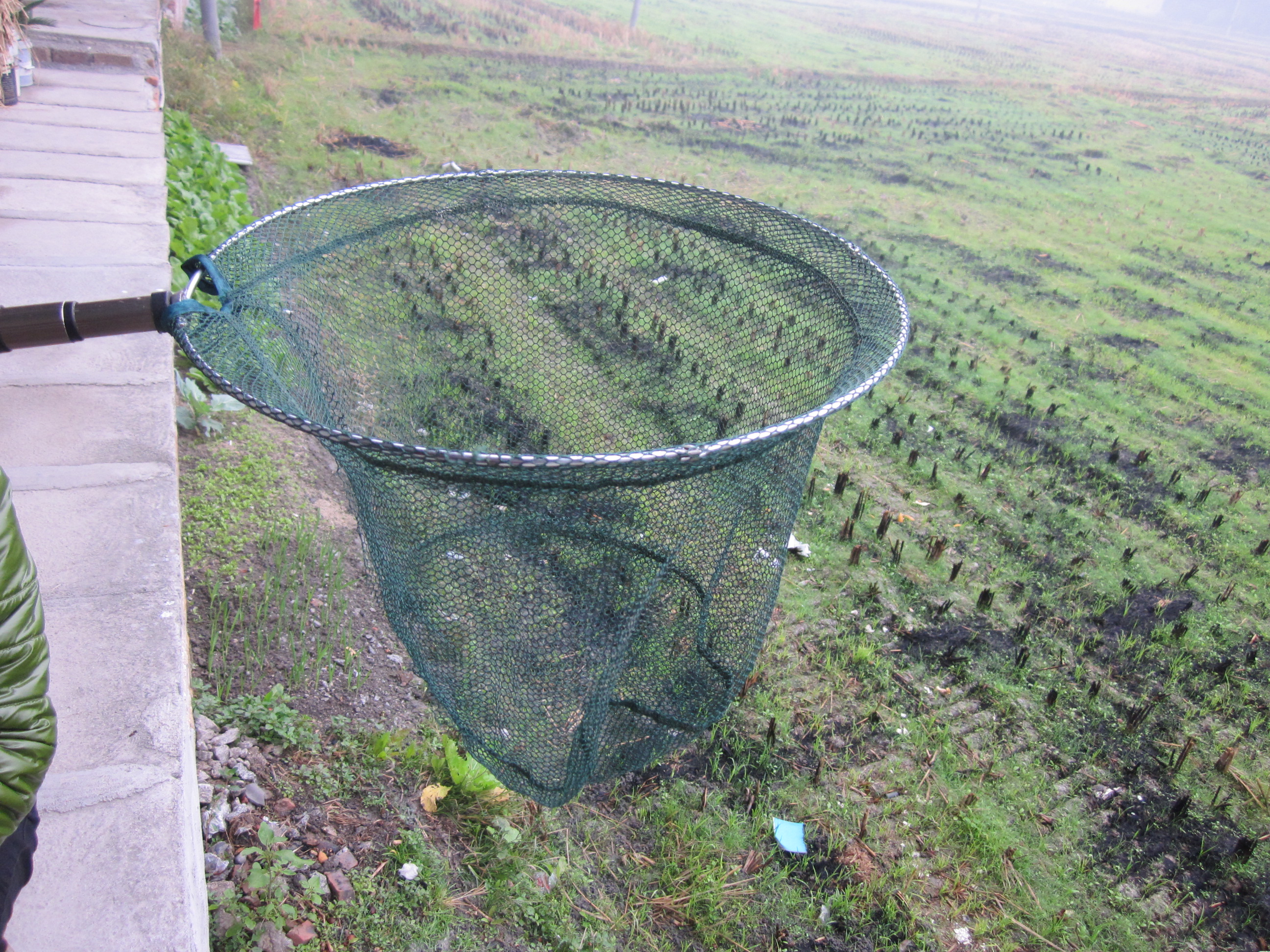 Landing net, it is a kind of fishing gear.